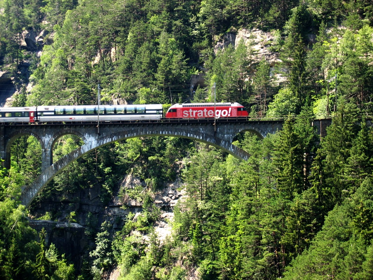 A panoramic train in the Reuss valley, on the Gotthard line